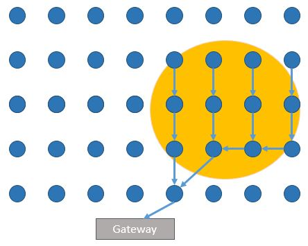 Sensors in a WSN relaying event data back to a gateway